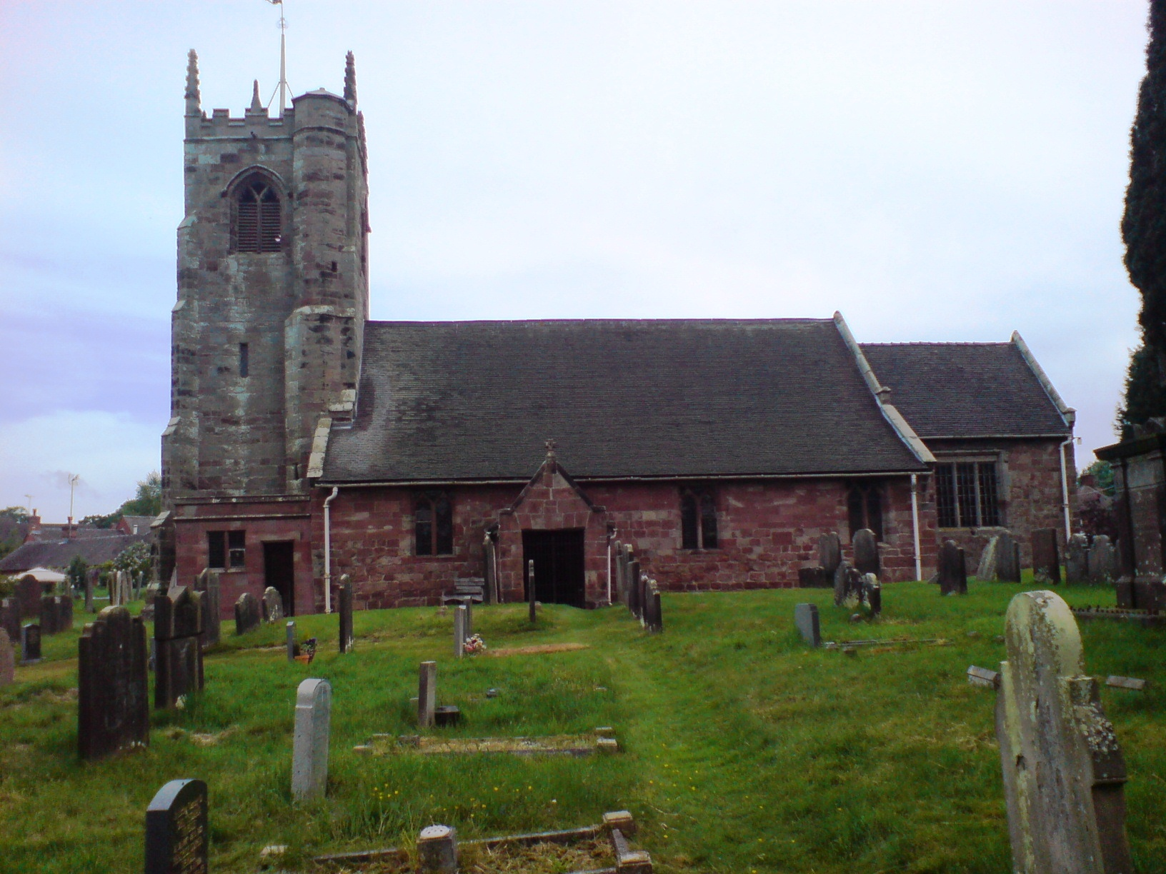 All Saints' parish church, Chebsey, Staffordshire, seen from the south